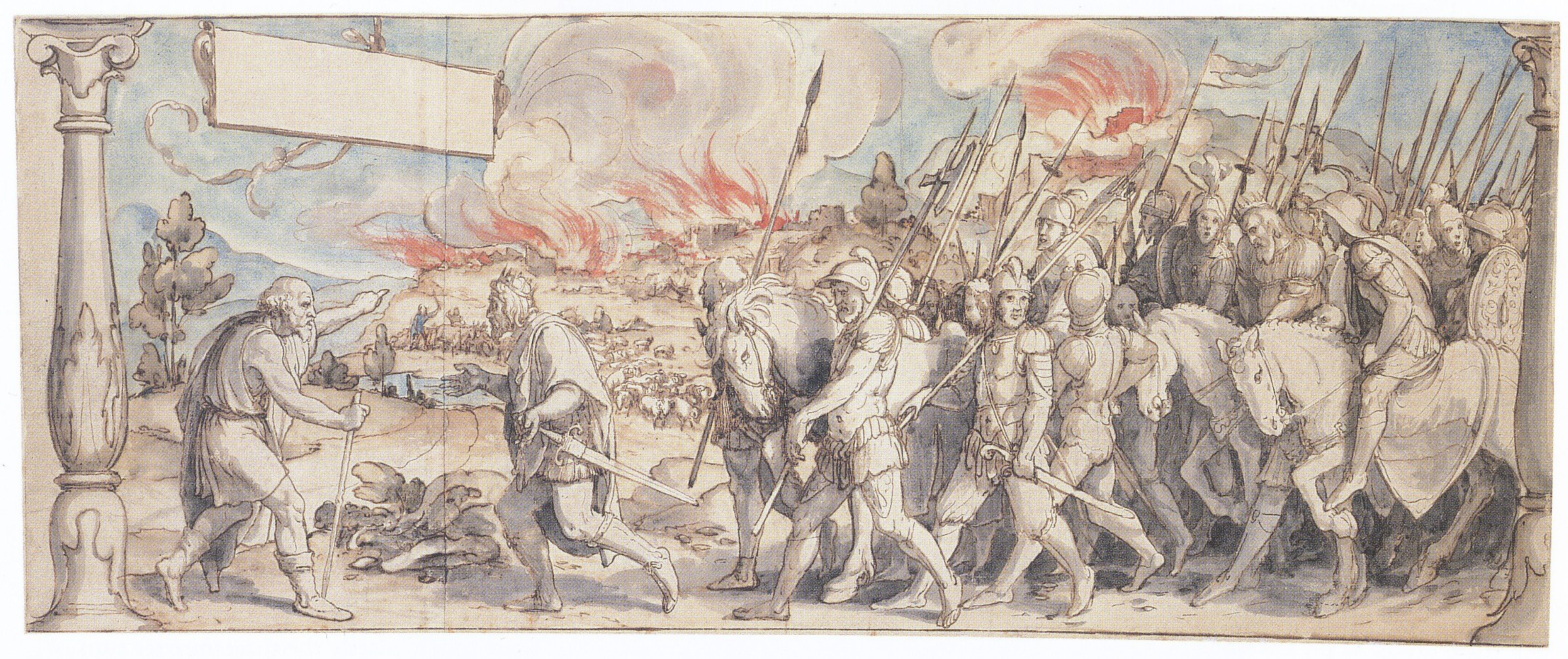 Samuel Cursing Saul. Pen and brown ink over chalk drawing, with watercolour and grey and brown wash, 2.1 × 2.15 cm, Kunstmuseum Basel. This drawing is one of a few surviving designs for wall paintings at the Council Chamber of Basel Town Hall. Holbein began working on the murals during the 1520s, painting classical subjects. After his return from a two-year visit to England (1526–28), he was commissioned to resume the task, but this time he was asked to provide murals based on Old Testament subjects, in keeping with the new Reformation doctrines of the authorities. These murals were one of several large-scale projects undertaken by Holbein that are now known only from a few fragments and preparatory sketches. The design shows King Saul rejecting Samuel's counsel on the treatment of the defeated Amelekites and their king, Agag. As a result of rejecting orders brought by Samuel from God, Saul was cursed by the prophet and lost his kingdom. The murals reminded the councillors of the need for wise and godly government. (Müller, p. 414)